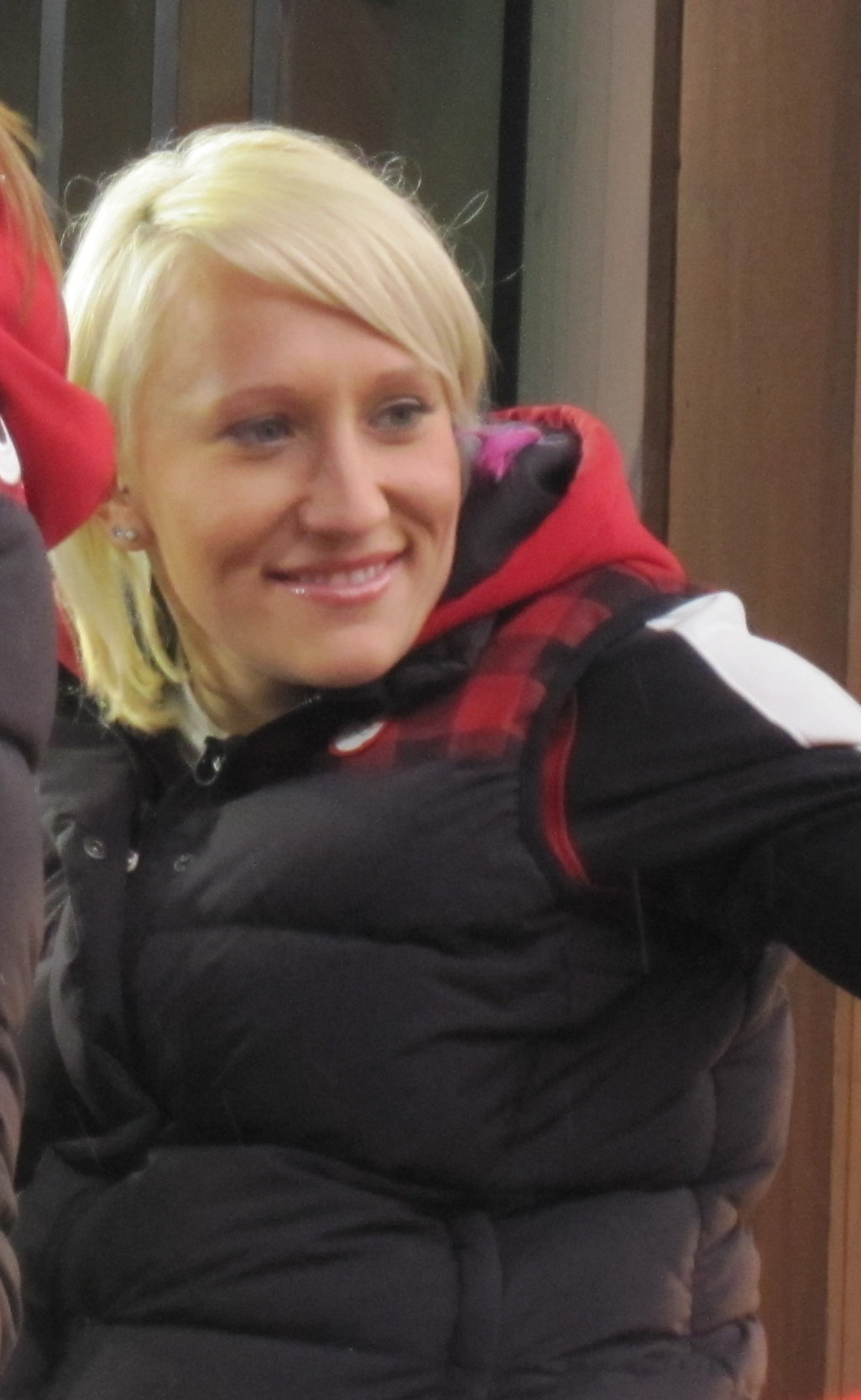 Kaillie Humphries in Whistler, BC during the Vancouver 2010 Olympics